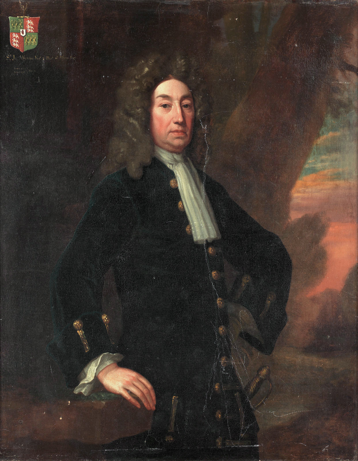 John Wynn, 5th Bt. oil on canvas 127.1 x 101.5 cm